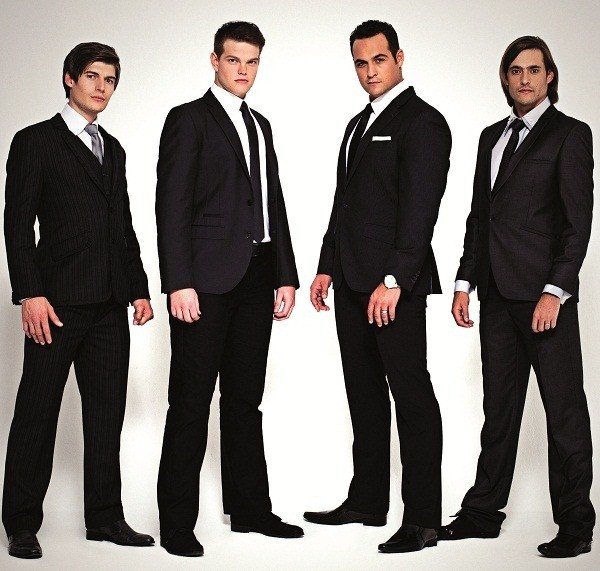 Showing how the group looks like